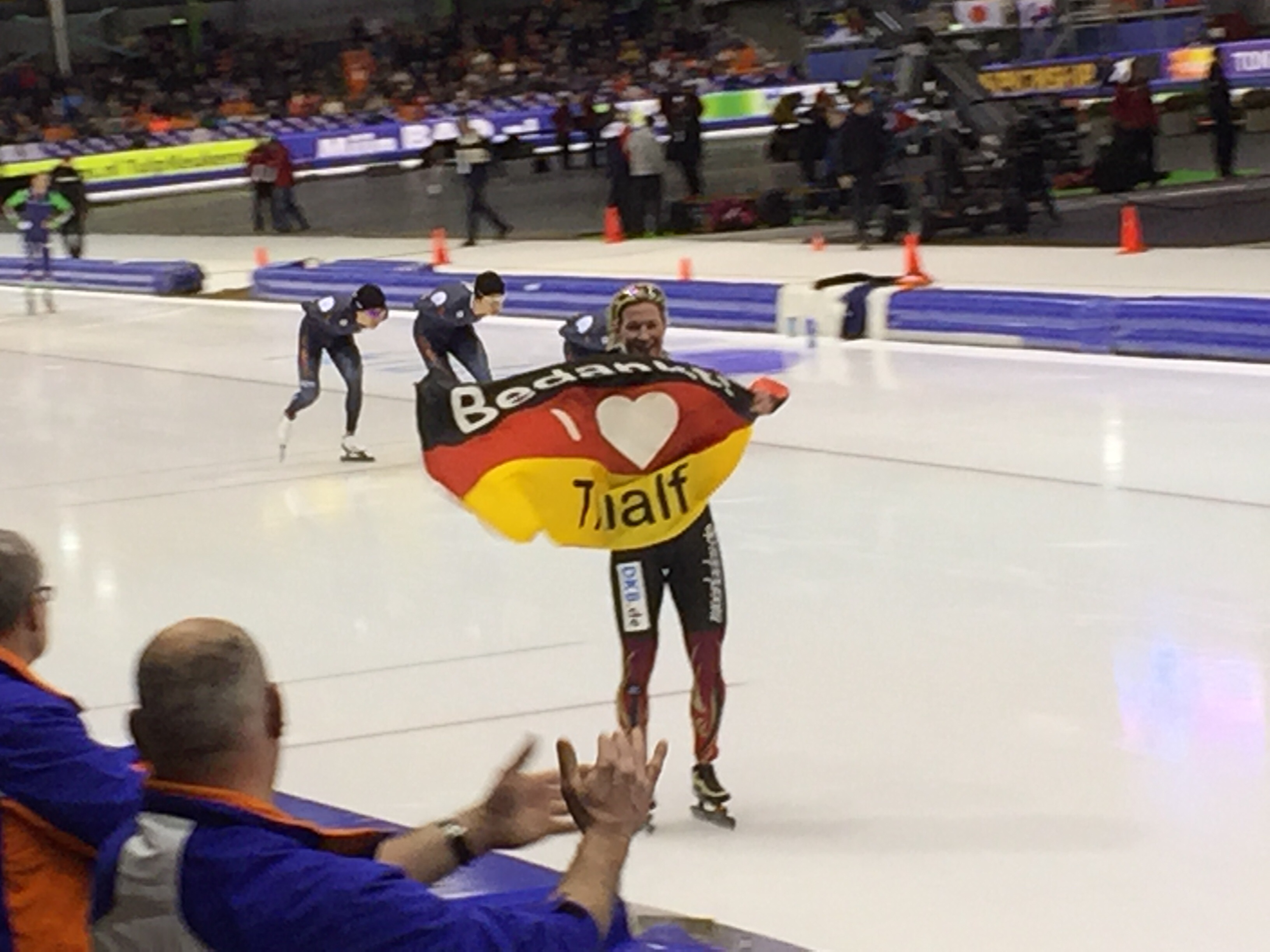 2015 World Single Distance Speed Skating Championships, Women's 5000m (